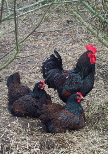 Barnevelder trio, double-laced, large fowl, 2006.